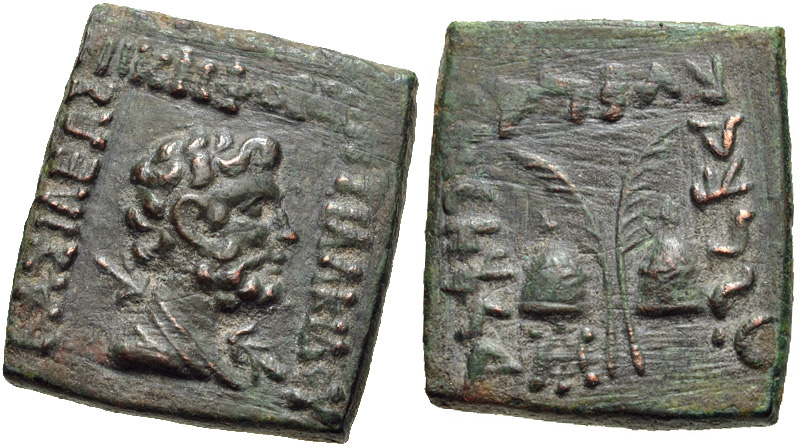 Coin of the Indo-Graeco king Antialkidas showing head of Zeus